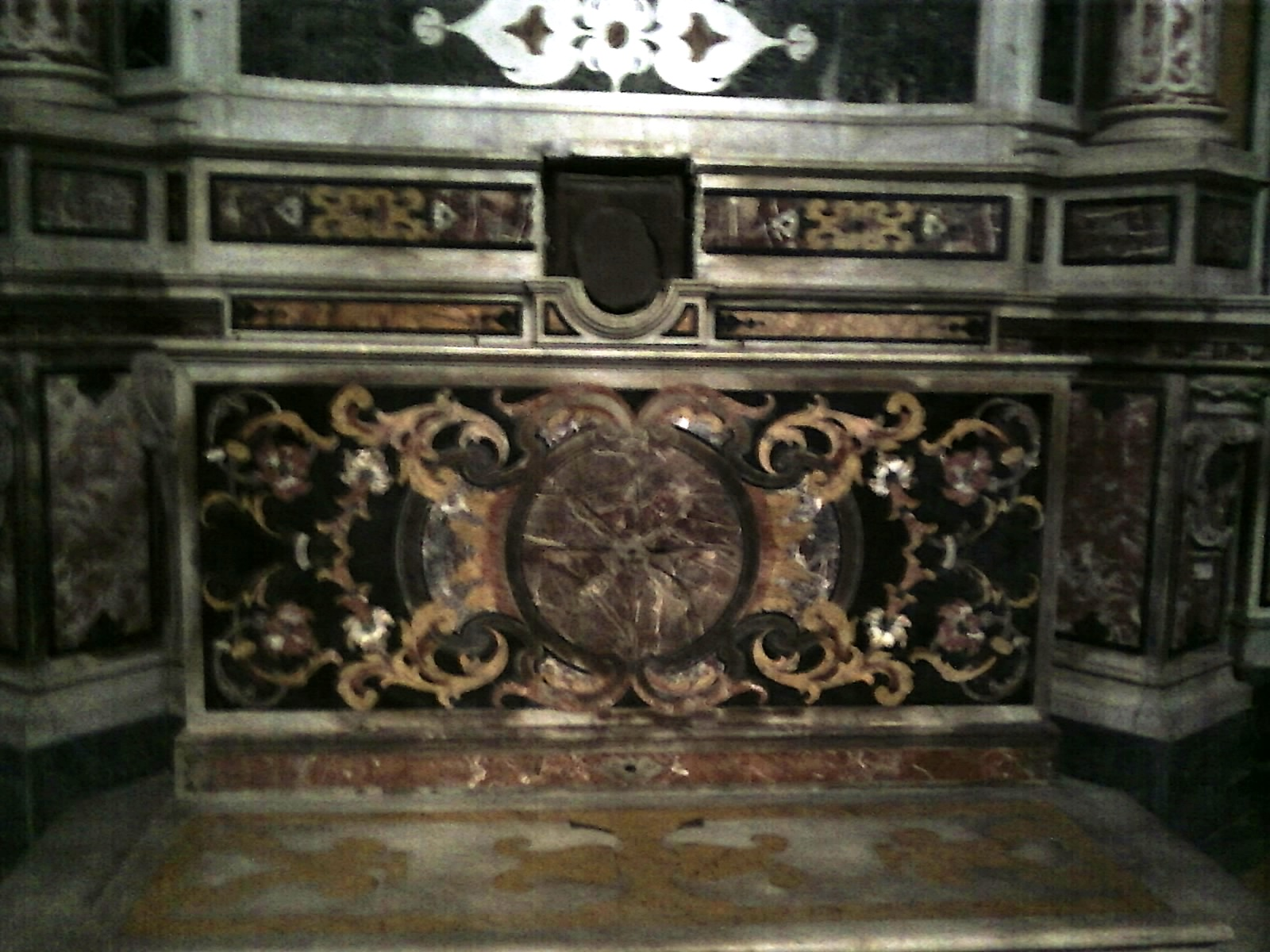 Granucci's altar